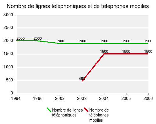 Phone lines and cellular in Nauru